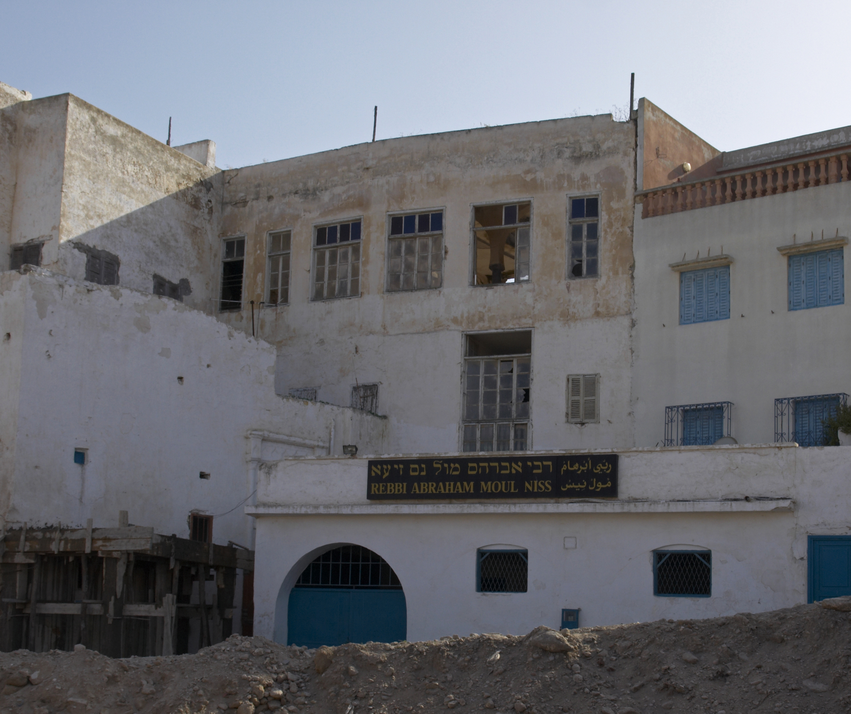 Deserted synagogue in Azemmour